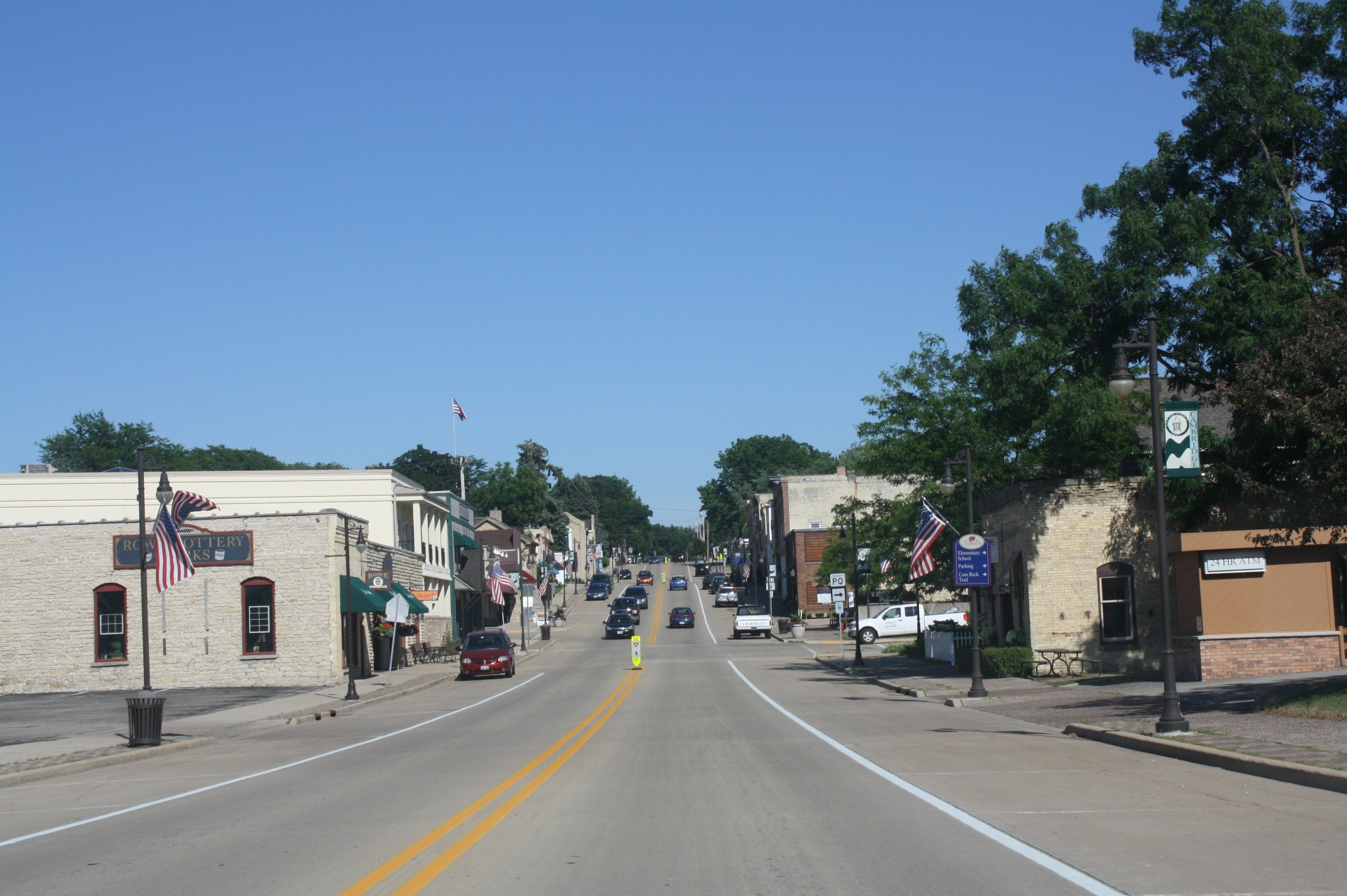 Looking east down U.S. Route 12 in downtown Cambridge, Wisconsin.